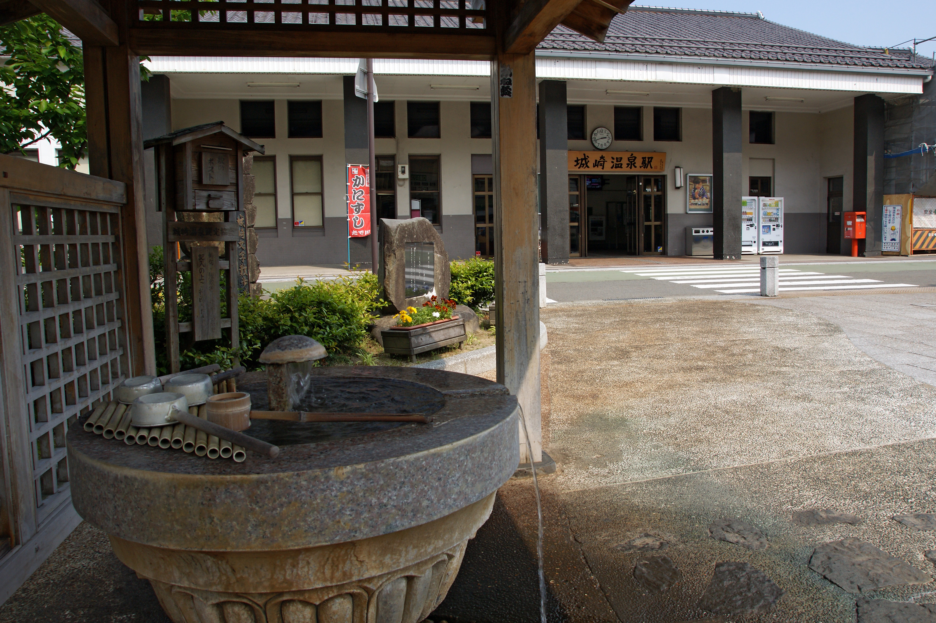 Kinosaki Onsen Station, Kinosaki Onsen in Toyooka, Hyogo prefecture, Japan